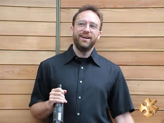 A demonstration of a typical digital on-screen graphic (DOG) at the bottom right corner of the screen.